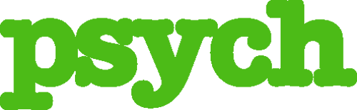 The logo for the American comedy-drama television show Psych. This image has the colors used for the season 1 DVD.